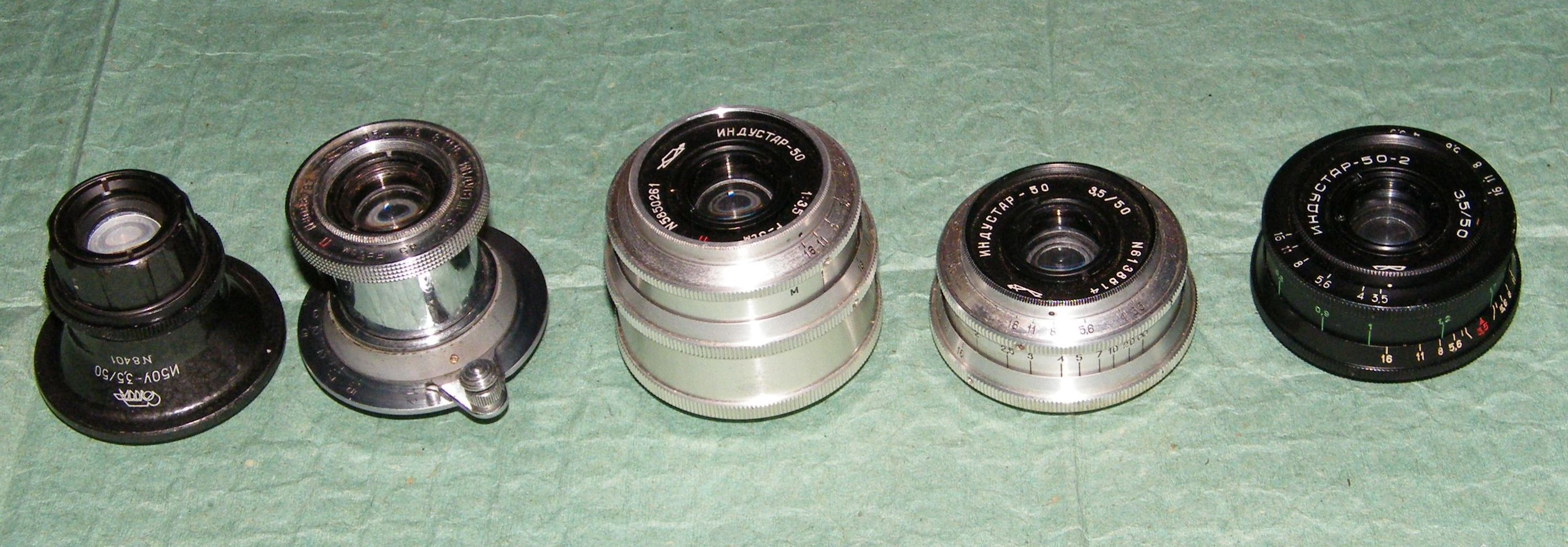 Industar lenses